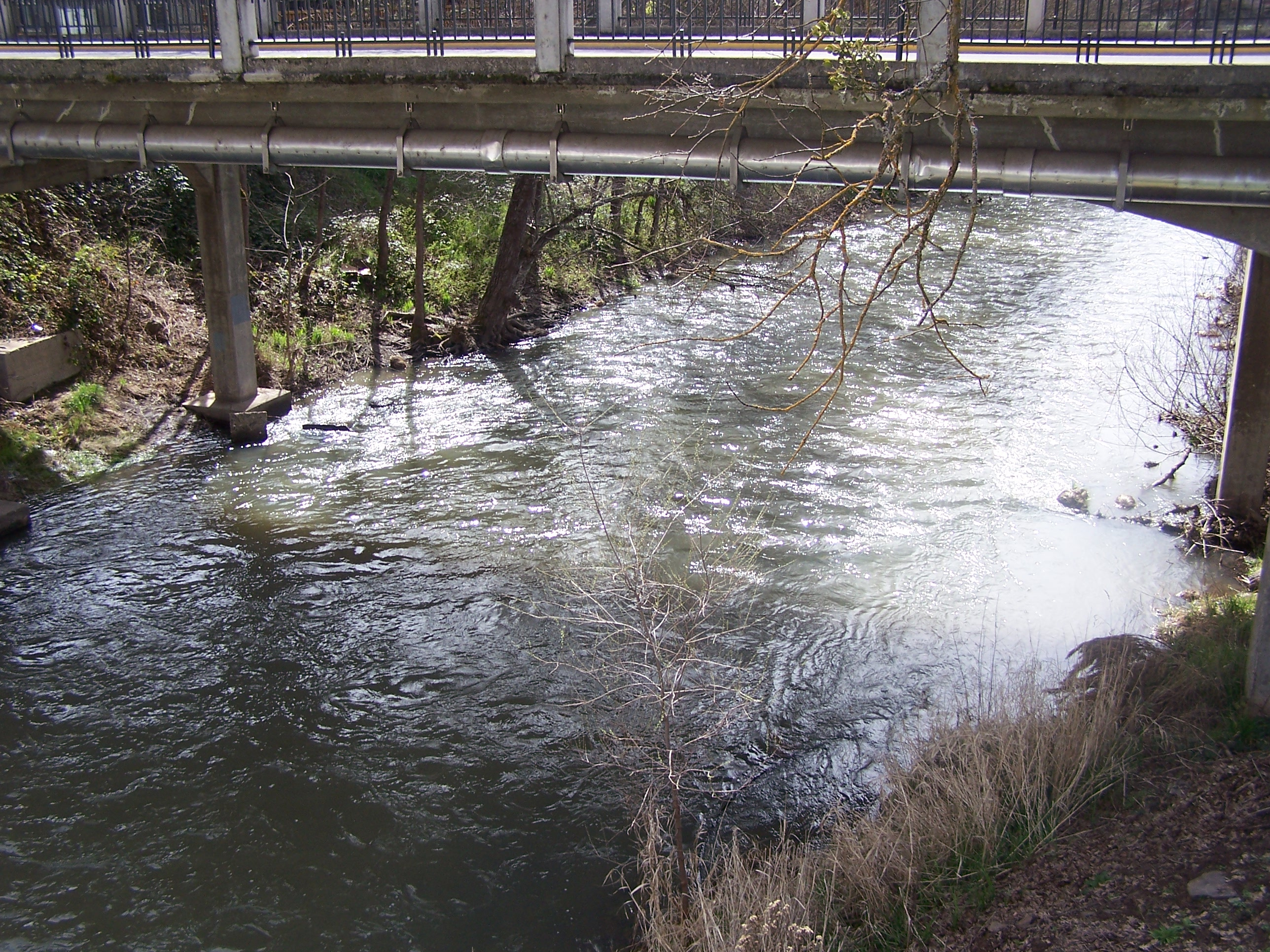 An image of Little Butte Creek from the Antelope Creek Covered Bridge.